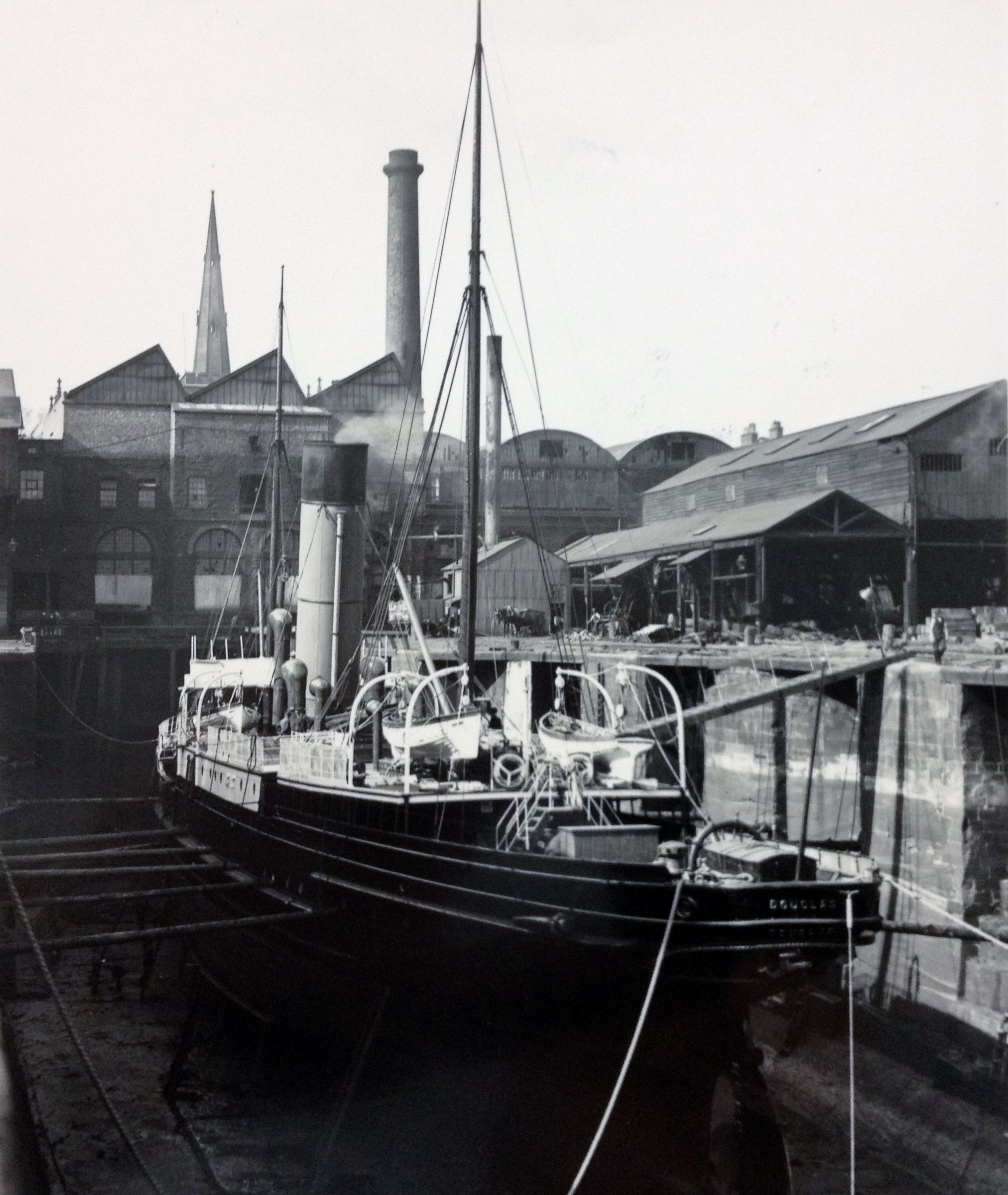 Douglas pictured in Dry Dock at Birkenhead.